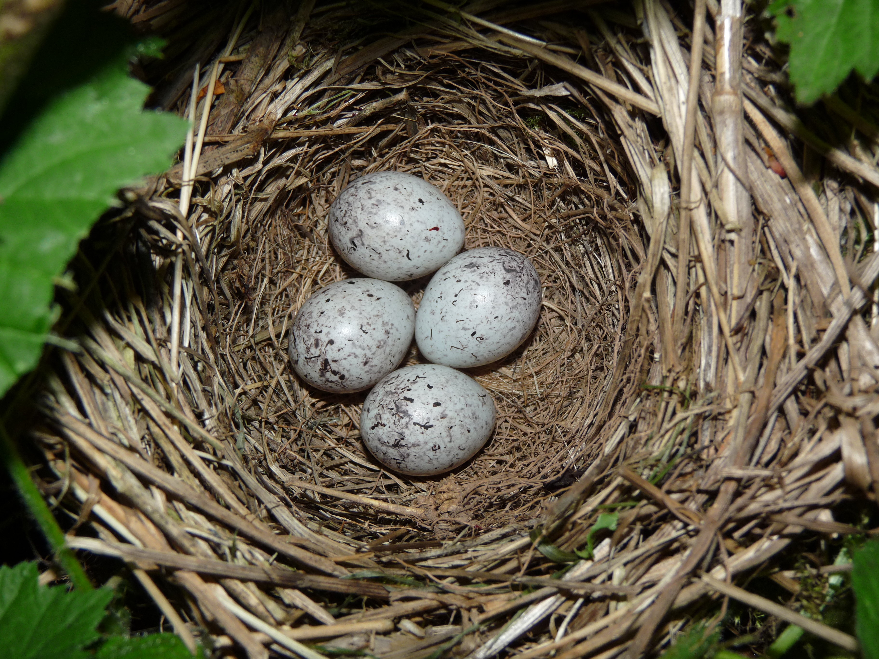 Latin name Emberiza citrinella Family Buntings (Emberizidae) Overview Males are unmistakeable with a bright yellow head and underparts, brown back... Where to see them ... When to see them All year round What they eat Seeds and insects